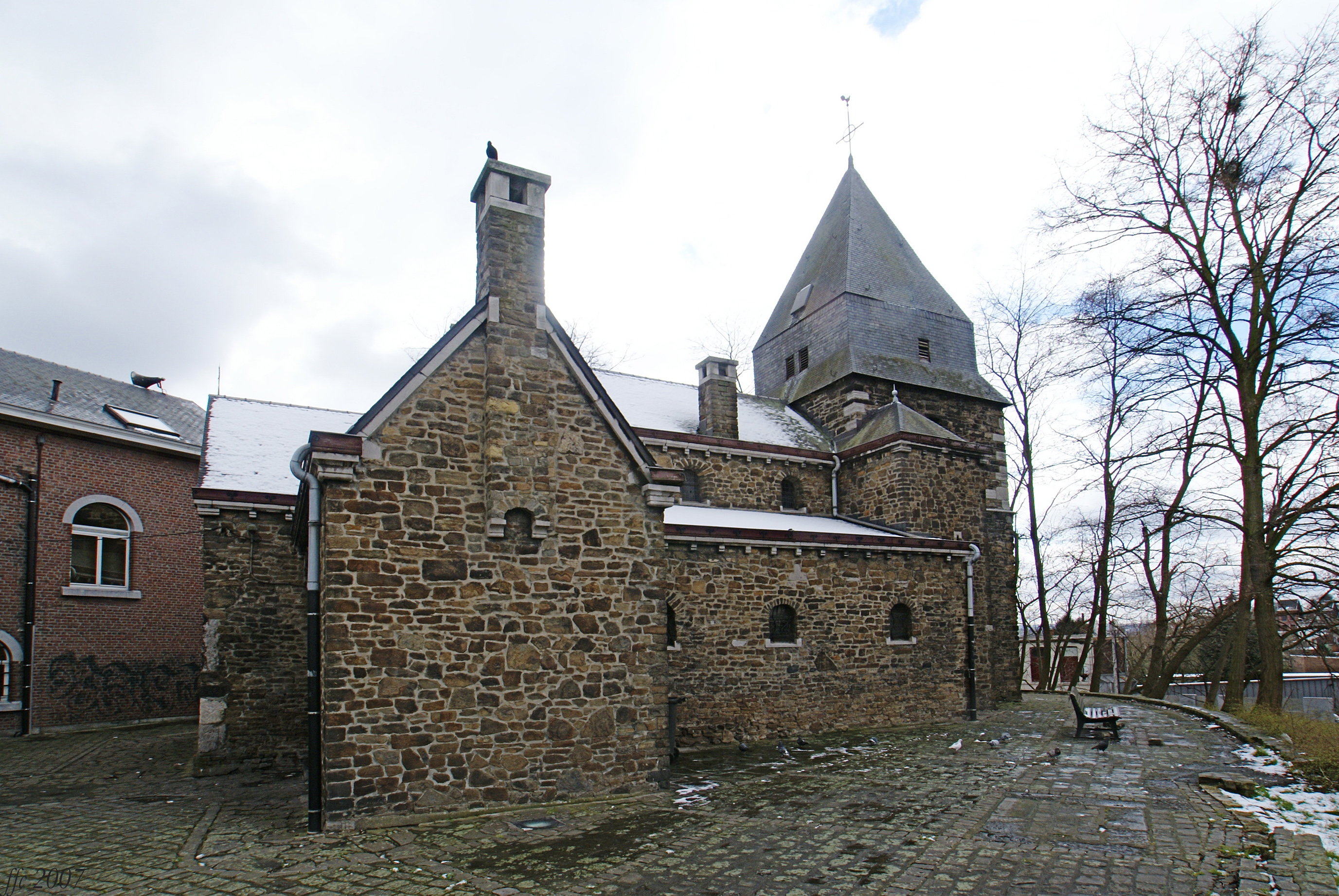 Chapel Saint Oremus (11th Century) in Herstal (Belgium) Capella Sant Oremus (segle XI)